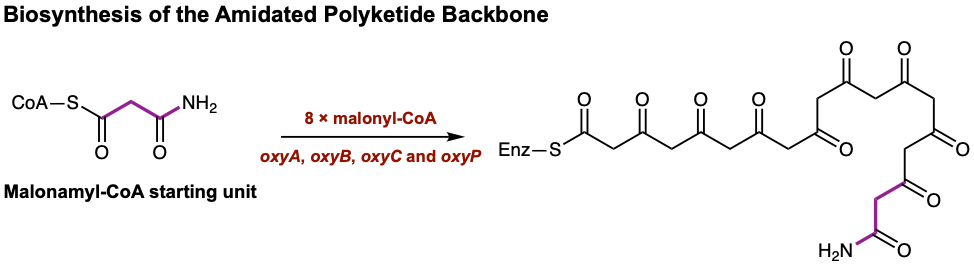 The first step in the biosynthesis of Oxytetracycline